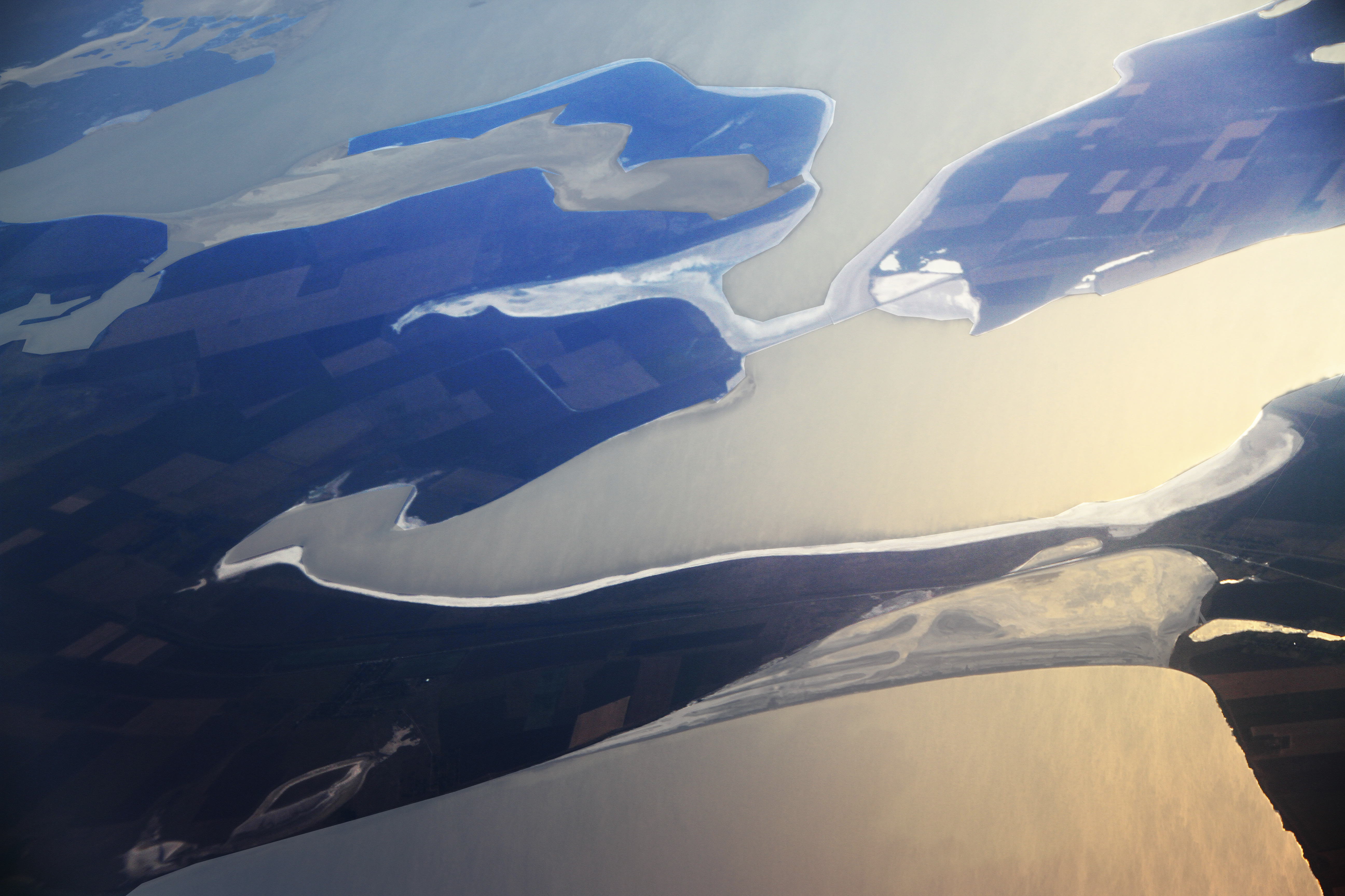 Chohgar peninsula. View from altitude 12000 m